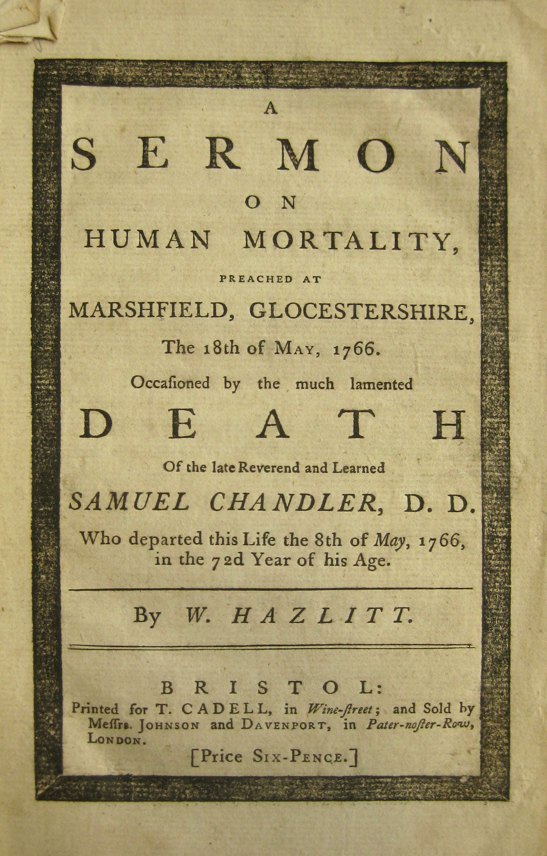 Titlepage of A Sermon on Human Mortality by William Hazlitt